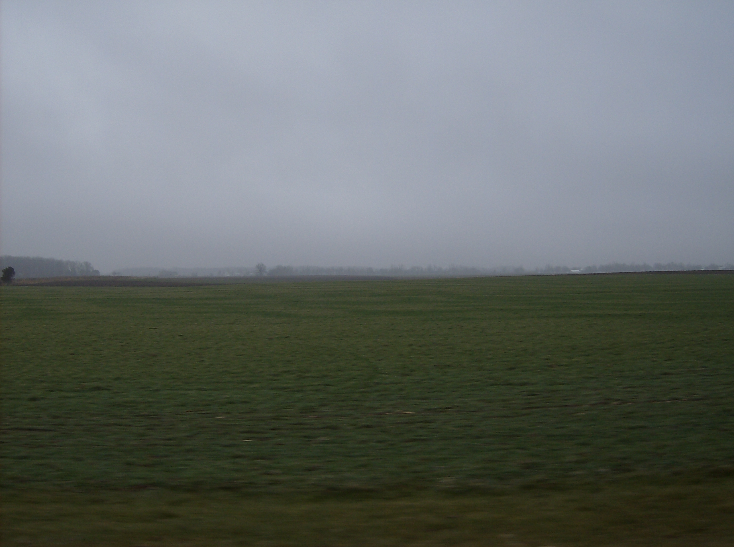 Field of winter wheat in northern Wabash Township, Darke County, Ohio, United States. Picture taken southward from State Route 705.